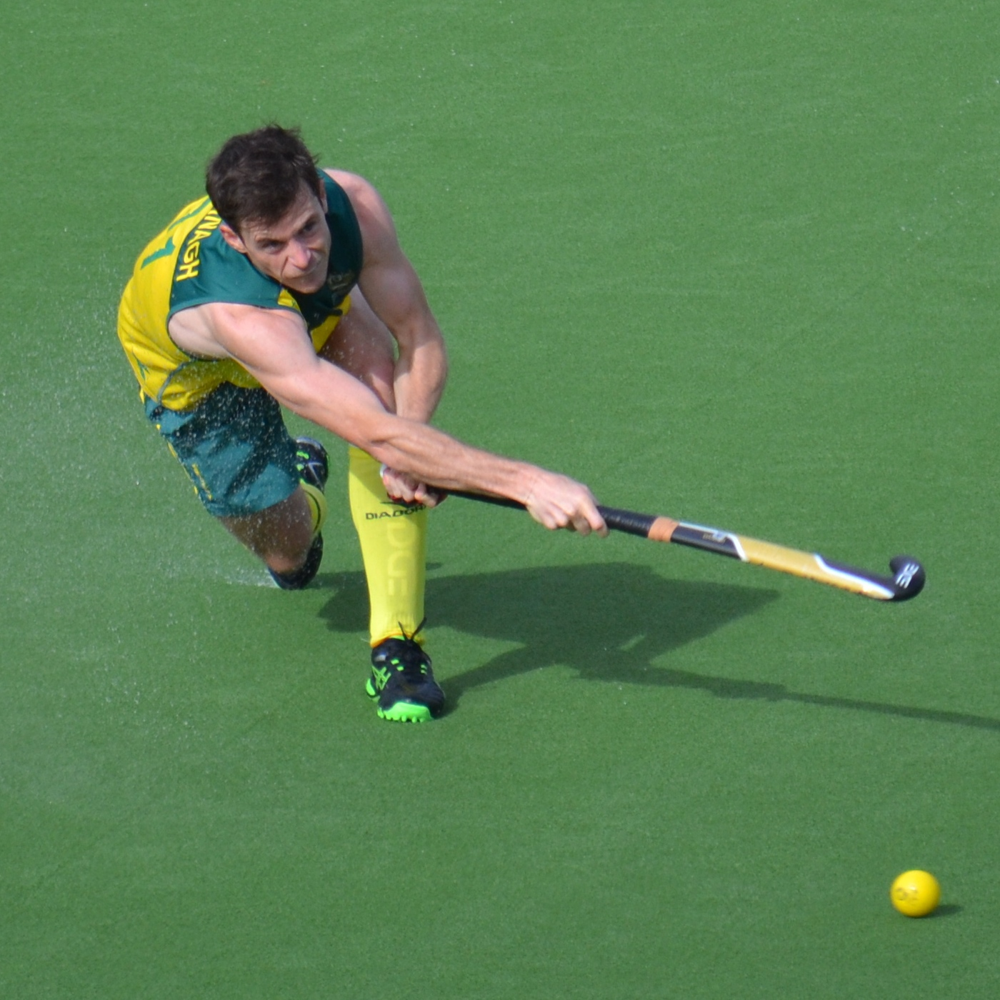 Glasgow 2014 - Hockey (16) - Fergus Kavanagh